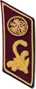 This image is in the public domain according to Austrian copyright law because it is part of a law, ordinance or official decree issued by an Austrian federal or state authority, or because it is of predominantly official use. (§7 UrhG) To uploader: Please provide where the image was first published and who created it. Hofrat (rechtskundiger Dienst der Bundespolizei)